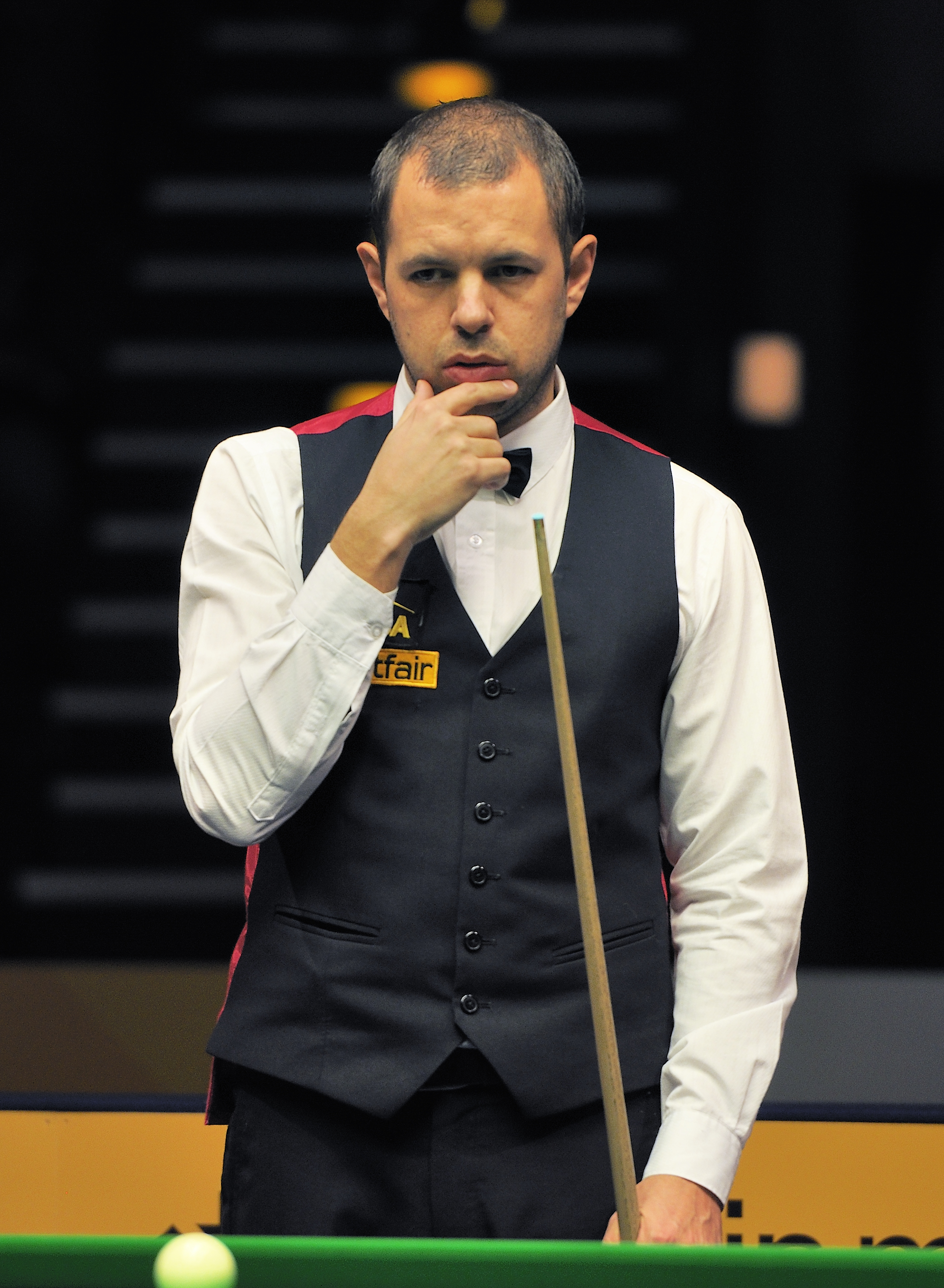 Picture taken in Berlin during the Snooker German Masters in 2013. Barry Hawkins.